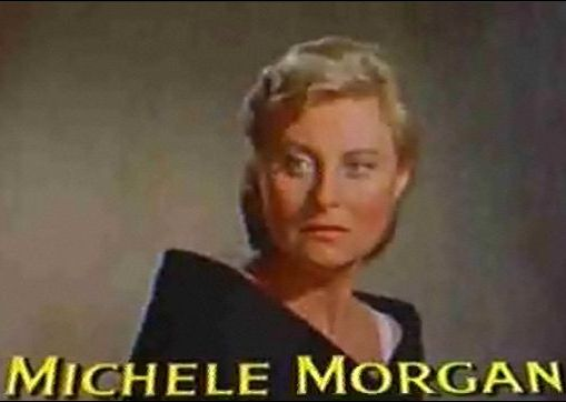 Screenshot of Michèle Morgan from the trailer for the film The Vintage